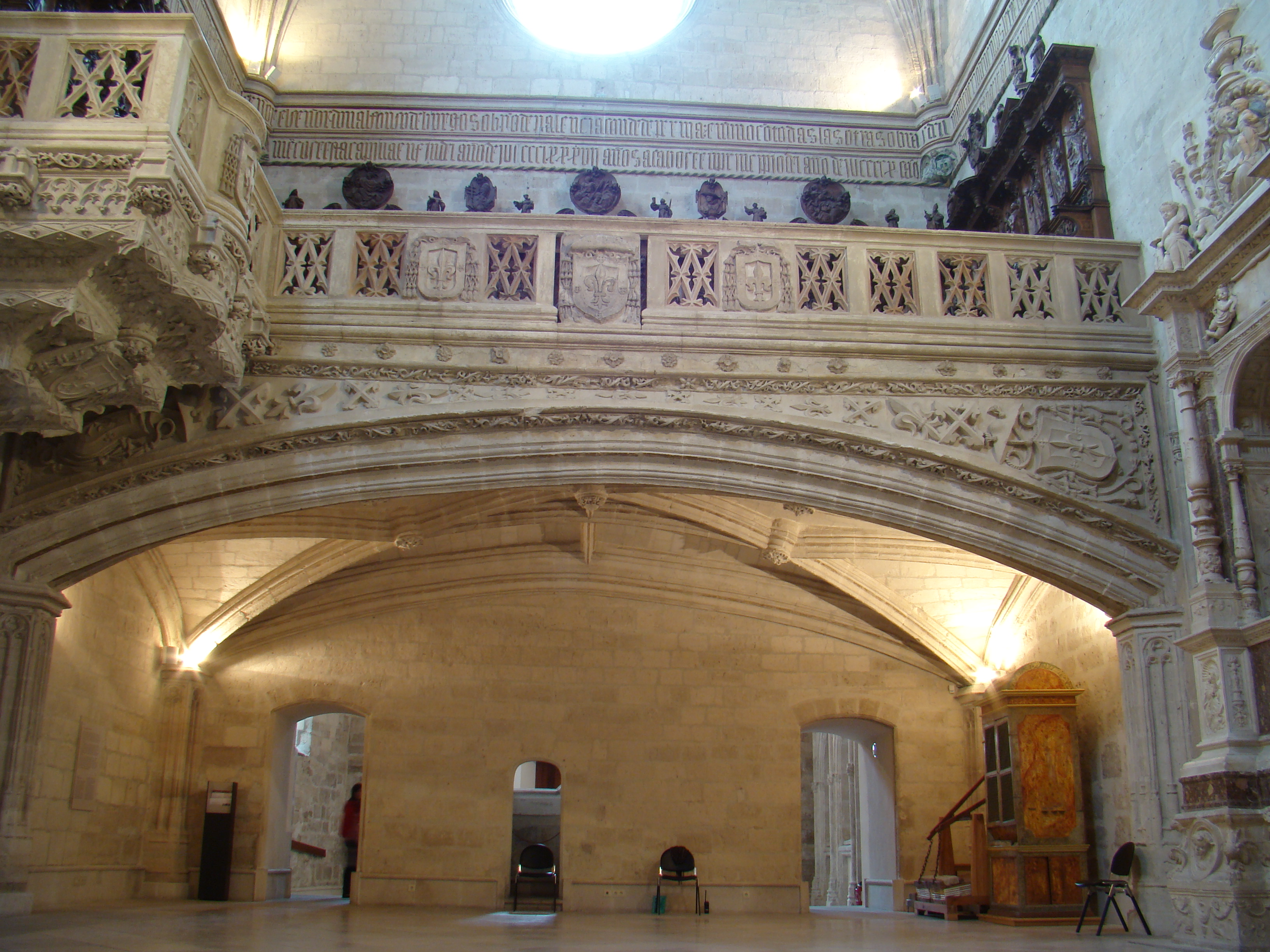 Choir-stall made in walnut wood which belonged to the major chapel of the extinct convent of San Francisco in Valladolid. The sculptor was Pedro de sierra, the joiners were Fray Jacinto de Sierra and Ventura Pérez. It is installed in the chapel of the School of San Gregorio, which belongs to the Museum of Sculpture of Valladolid, Spain.